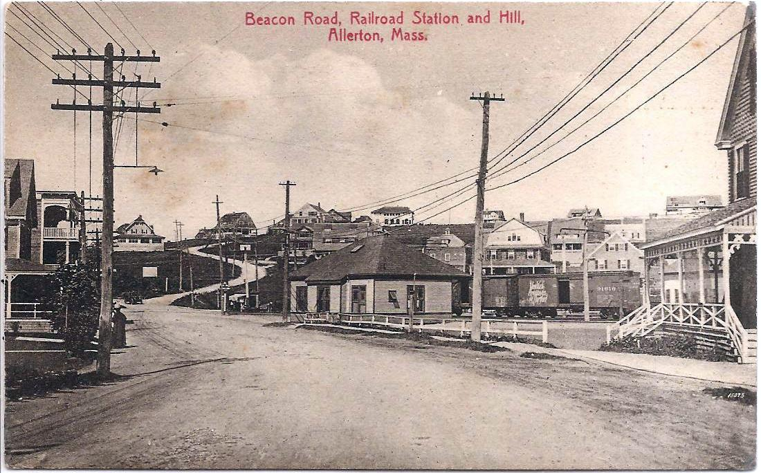 Early divided back postcard of Beacon Road (Allerton) station